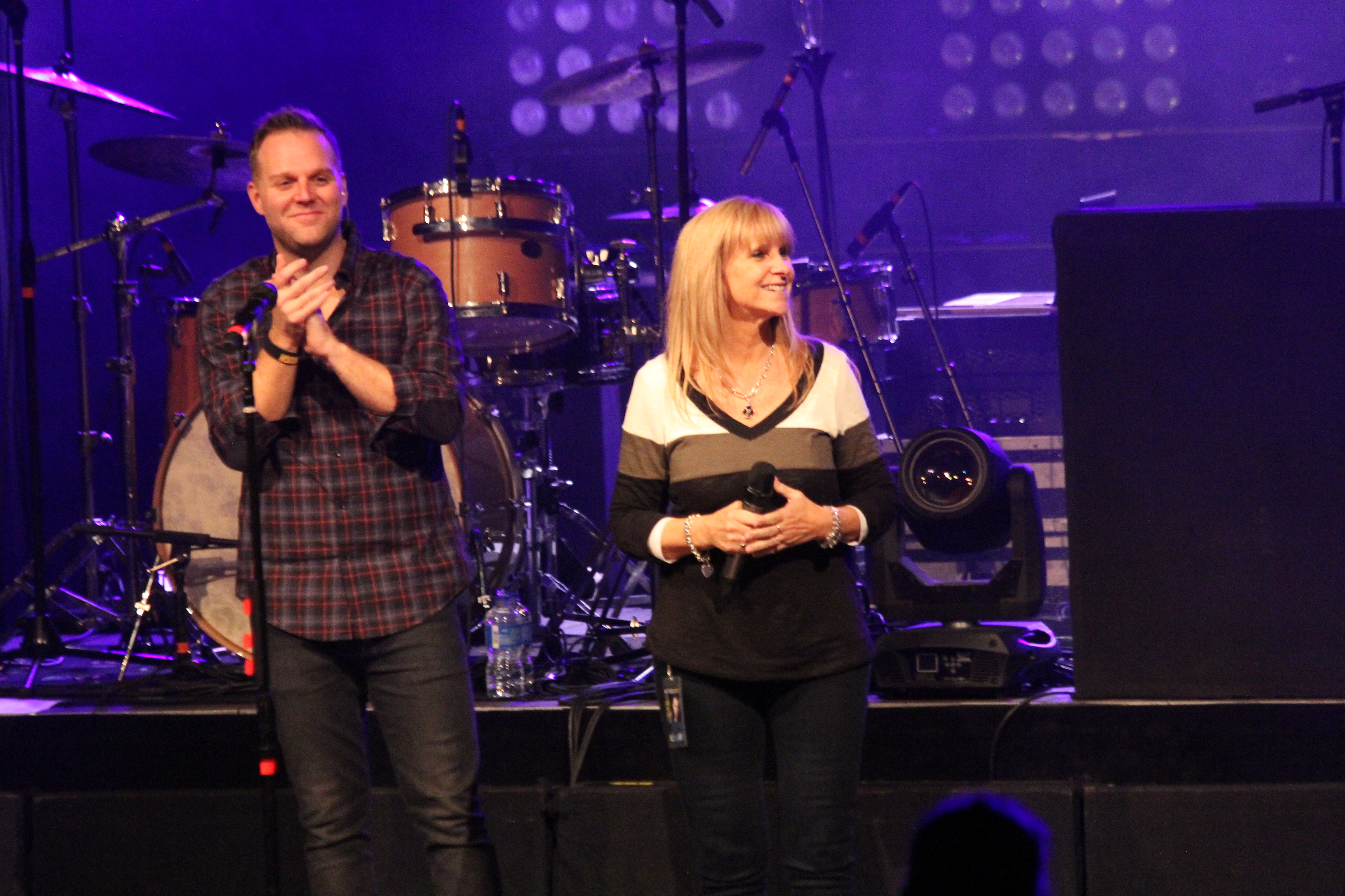 Christian music singer Matthew West on stage with Renee Napier. Her public forgiveness of Eric Smallridge after he killed her daughter Meagan Napier while driving drunk inspired West's song "Foregiveness."